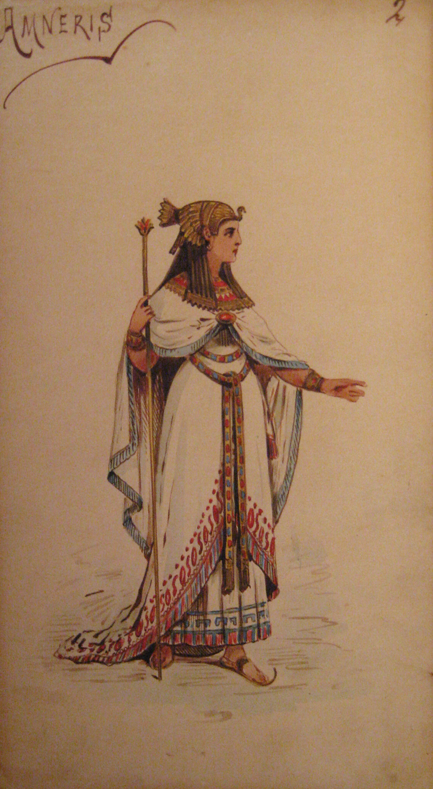 Aida by Giuseppe Verdi. Character – Amneris. Costume design realized on commission of Ricordi & C. by Girolamo Magnani for the premiere at Teatro alla Scala, February 8, 1872.